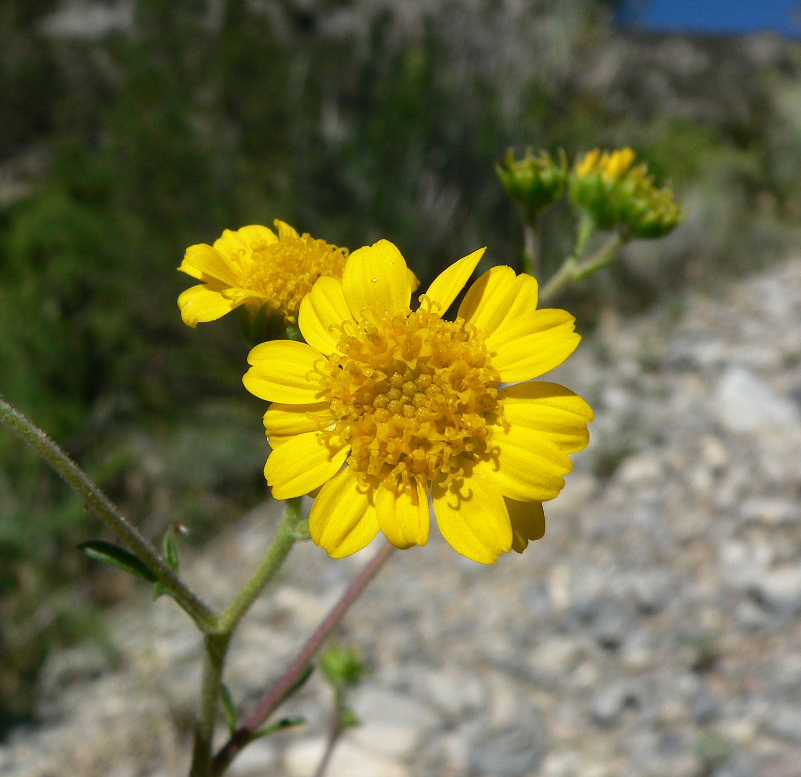 Hymenothrix dissecta in Mount Charleston where Kyle Canyon Road crosses over the wash, Kyle Canyon, Spring Mountains, southern Nevada (elev. about 2300 m)